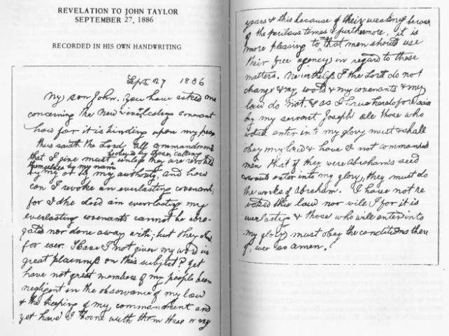 Photo of 1886 revelation, handwritten by John Taylor